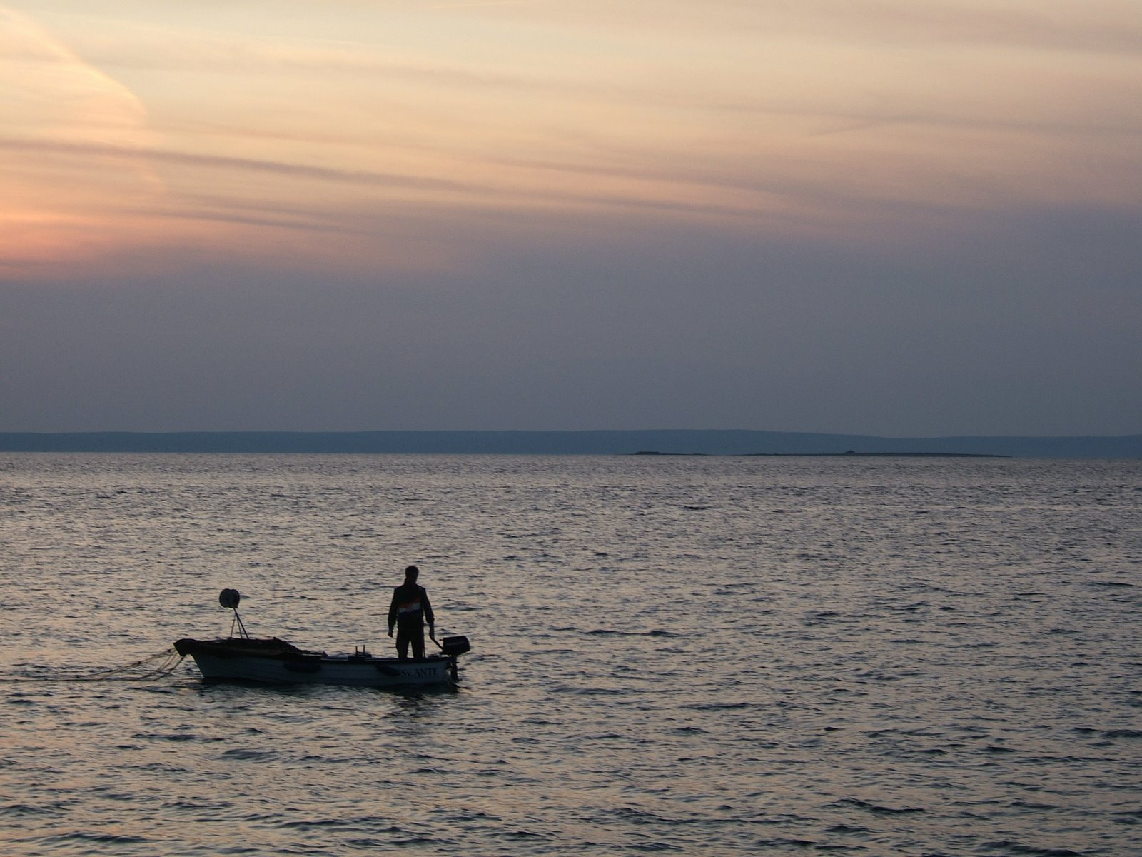 Boat at the place Lun, Croatia.